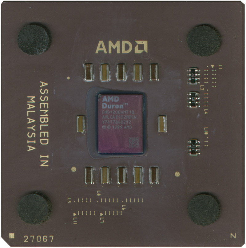 AMD Duron 1200MHz CPU («Morgan» core)